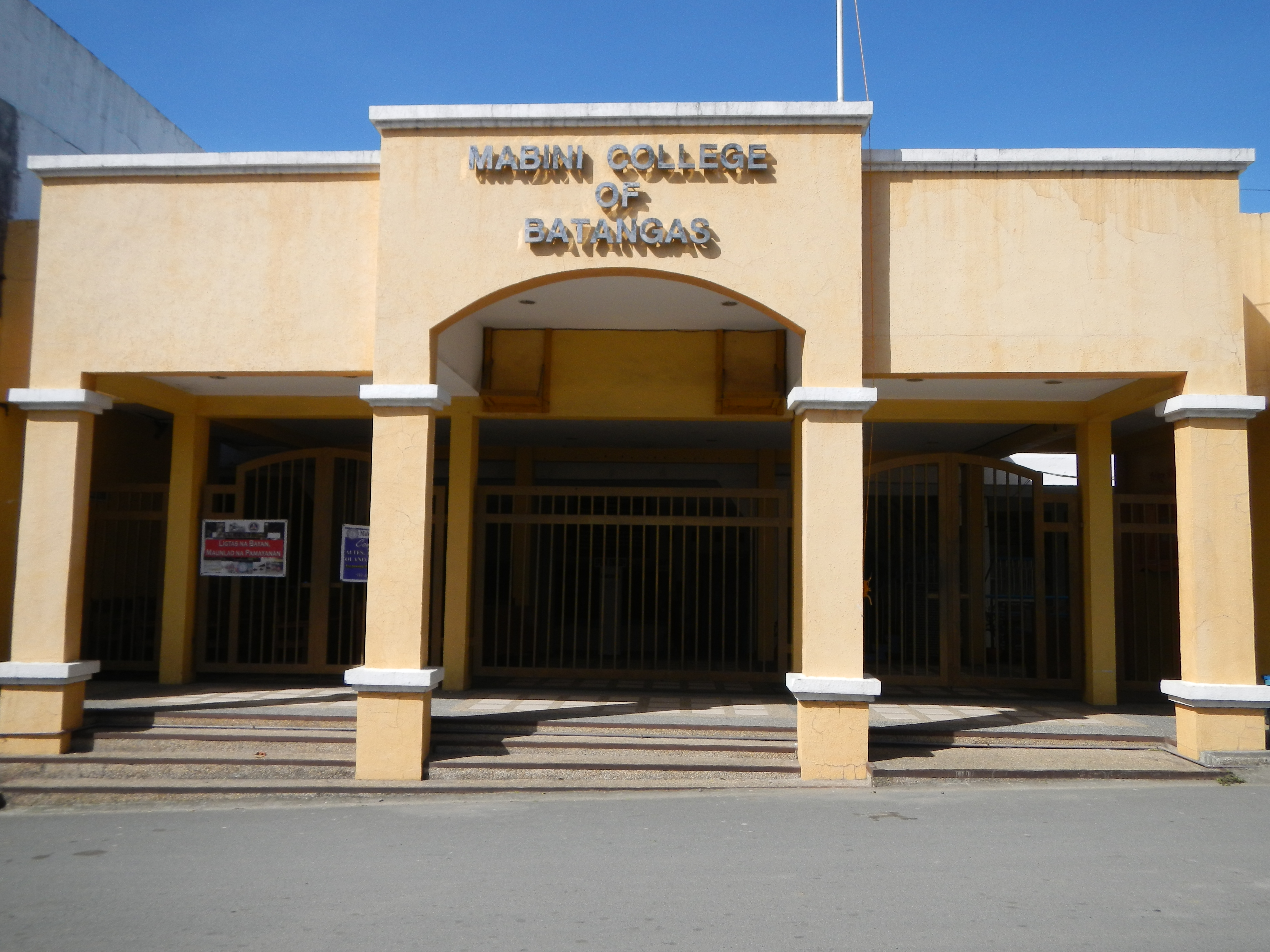 Upload Wizard photos -- (General description, 3-dimension angle by angle photography of this town, church & landmarks) -- Mabini General Hospital, in centro, crossing, junction of the Pan-Philippine or National, Maharlika Highway, with center is the Mabini Welcome statues and signs, waiting shade, bus, jeep and tricycle stop and Town Proper, Mabini Plaza, Town Hall Complex, downtown, Mabini College of Batangas, -- - Mabini, Batangas[1].